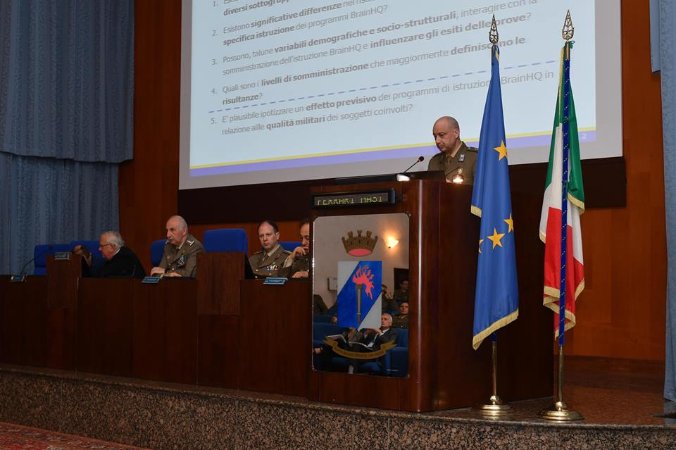 Military Psicology Conference, Rome